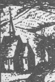 All Saints church, Brno, Czech Republic